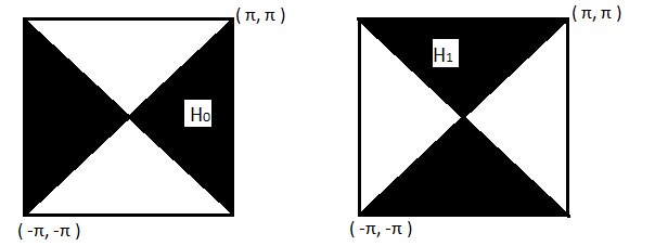 Fan Flters